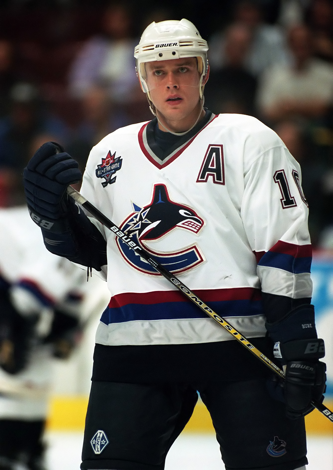 Pavel Bure, an NHL ice hockey player, playing for the Vancouver Canucks at a game in Vancouver.